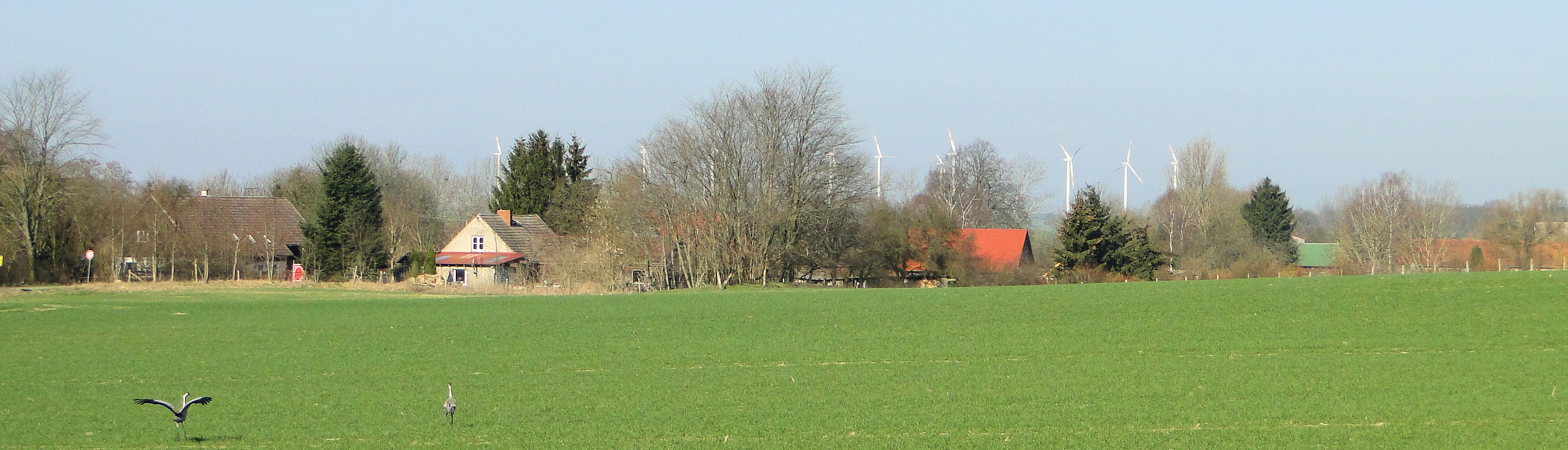 Village view with cranes on a field in Kadow, district Ludwigslust-Parchim, Mecklenburg-Vorpommern, Germany